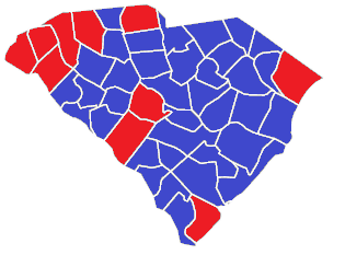 Results of the 1998 United States Senate election in South Carolina by county.